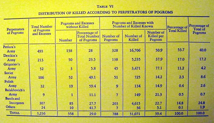 Page 248 in Nahum Gergel' article "The Pogroms In the Ukraine 1918-21", Published in: YIVO Annual Of Jewish Social Science, New York, 1951. Originally published in Shriftn Far Ekonomik Un Statistik, 1928. Page 248 contains table "Distribution Of Killed By Perpetrators Of Pogroms".